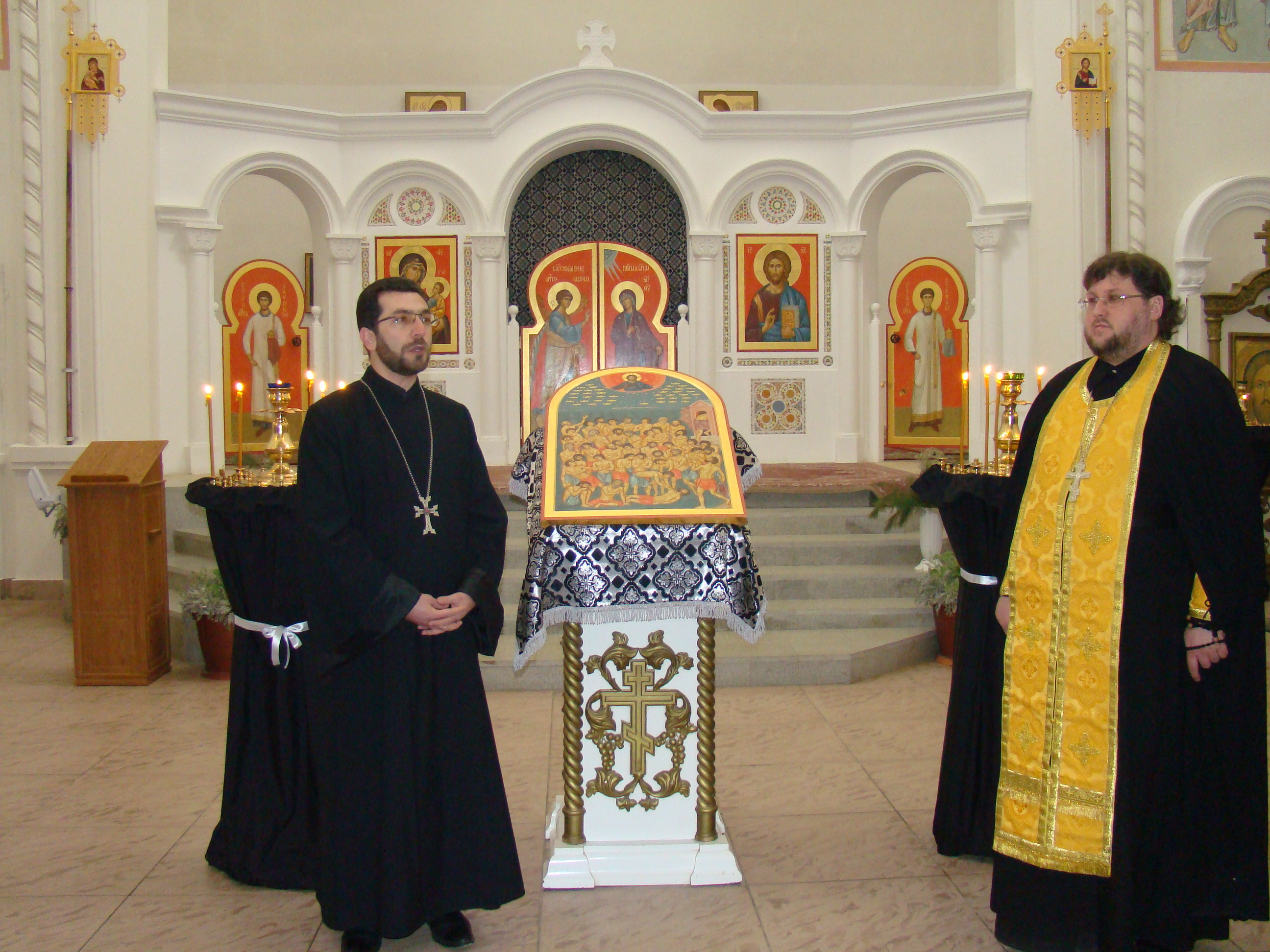 Armenian-Russian church relations